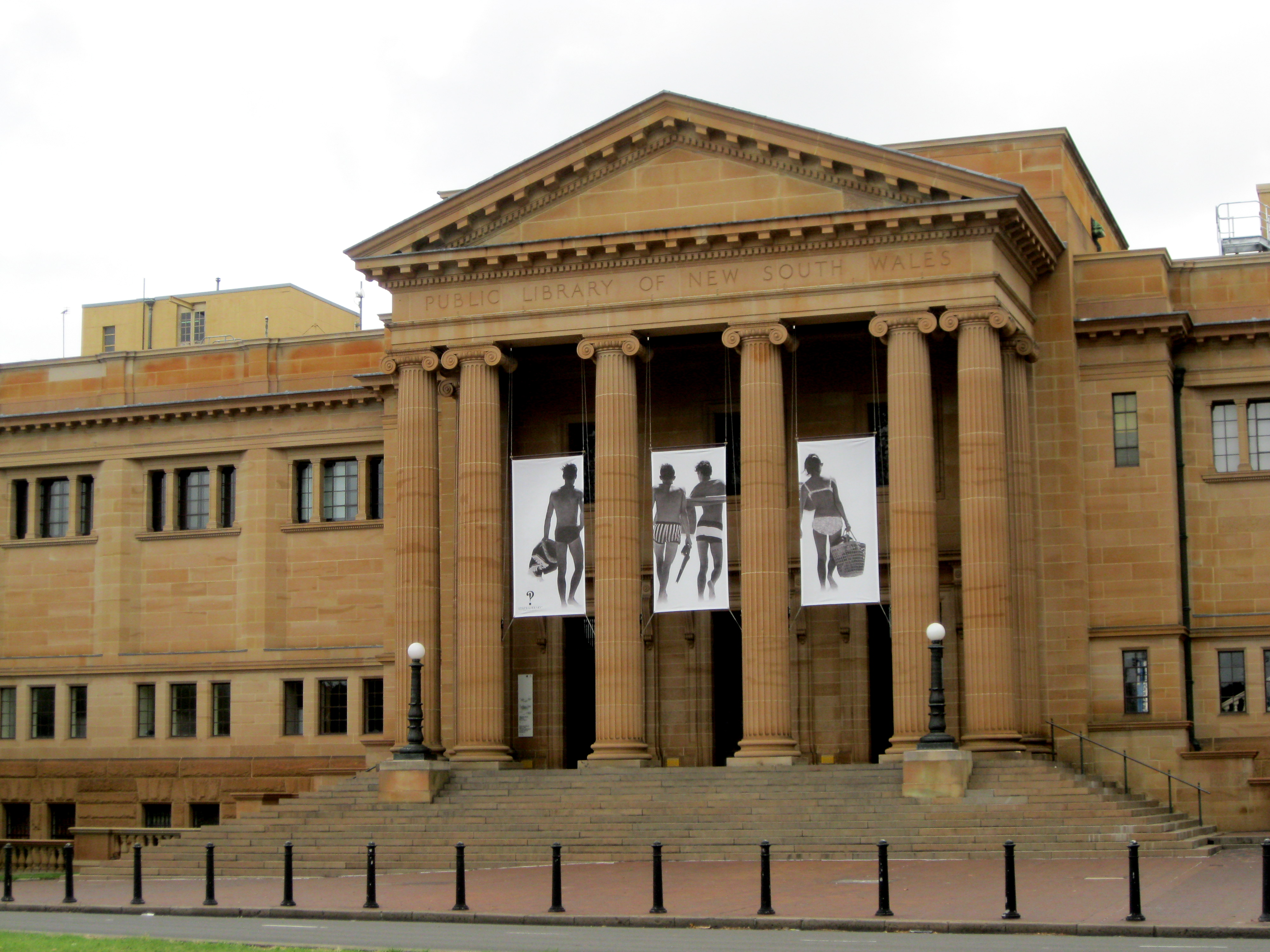 State Library of New South Wales